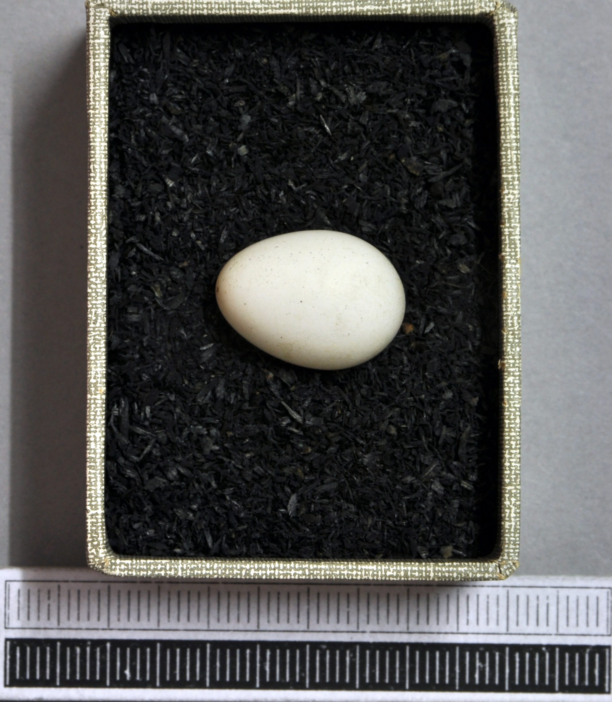 Tree swallow Tachycineta bicolor , egg, Coll. Museum Wiesbaden